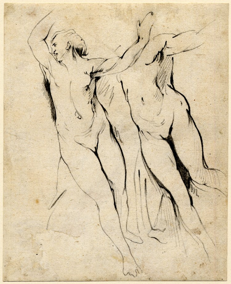 Nude studies of two women, after f 121 of the Sketch-book of van Dyck at Chatsworth Black chalk. Thought to be copied in turn for a drawing by Titian for Perseus and Andromeda